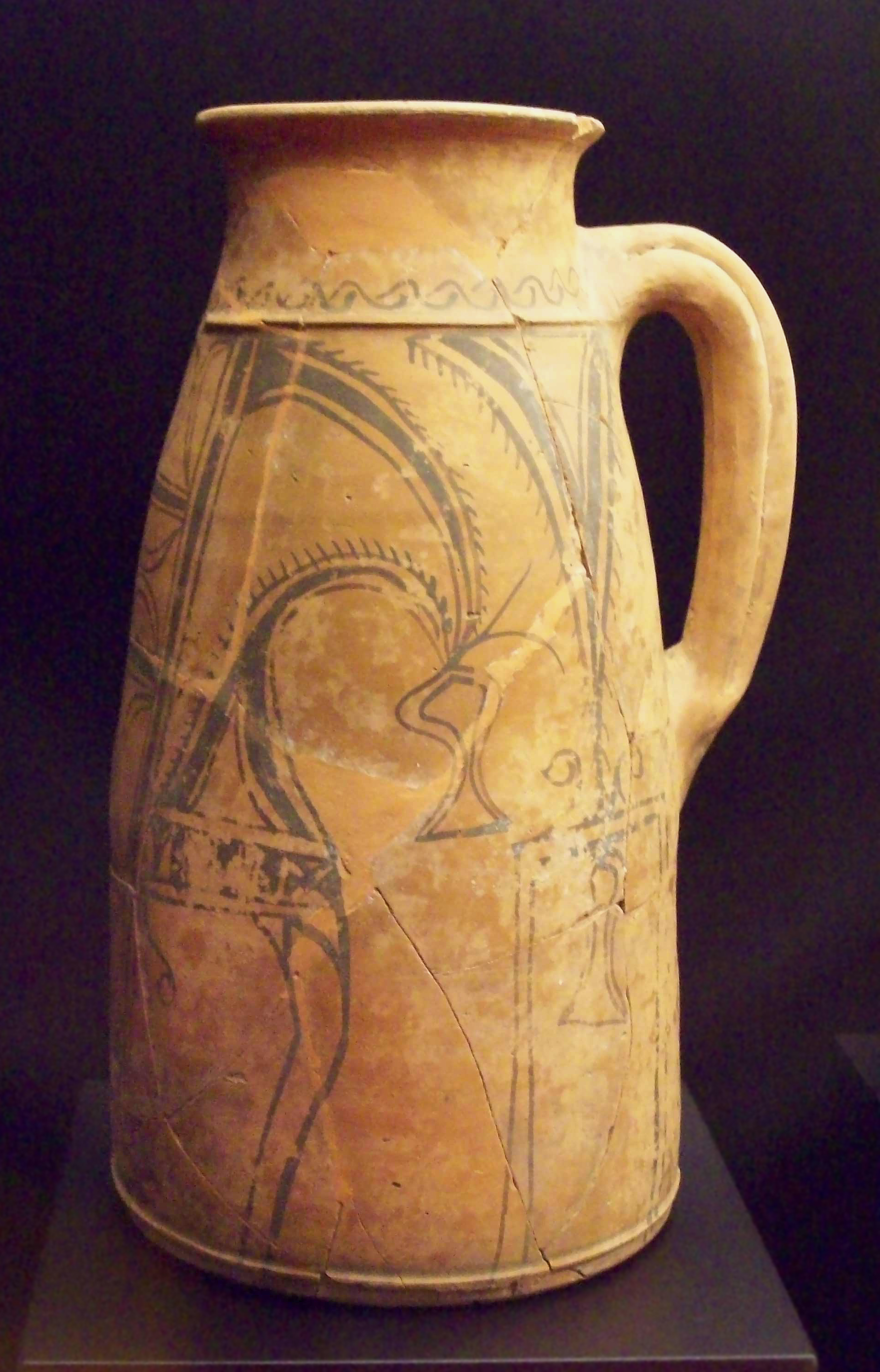 A Celtiberian jug. Typology: Arlegui 20.